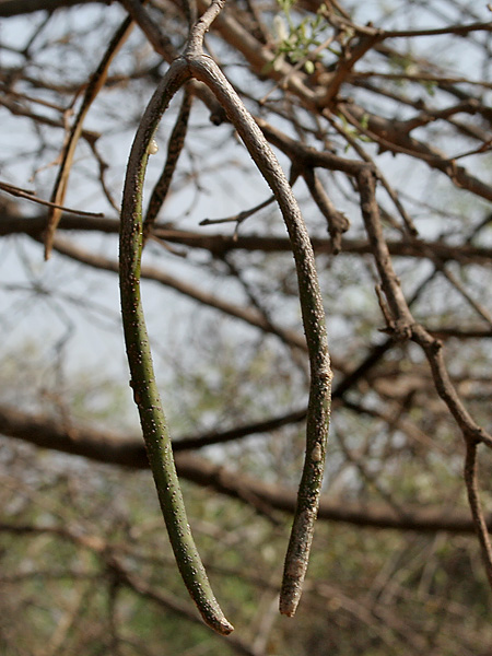 Wrightia tinctoria - Sweet Indrajao, Black indrajau, Pala indigo plant, Dyers’s oleander, Kala kuda, black indrajau, dyeing rosebay, dyers’s oleander, ivory tree, pala indigo plant, dudhalo, dudhi, indrajau, karayaja, kuda, ajamara, kalakudo, bhurevadi, bhanthappaala, kampippaala, nilappaala, asita kutaj, hyamaraka, stri kutaja, irum-palai, paalai, vet-palai, ankuduchettu, chiti-anikudu or kondajemudu in Mahavir Harina Vanasthali National Park, Hyderabad, India.